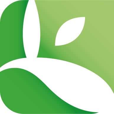 Logo of the Netherlands Biodiversity Information Facility